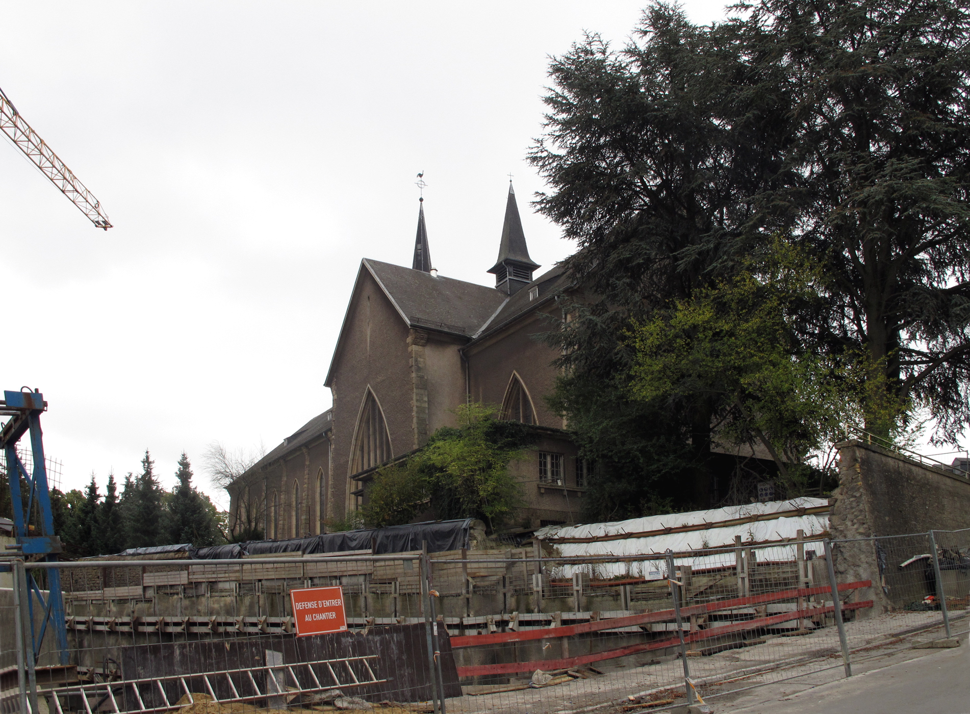 Church of Differdange, Luxembourg with adjacent construction area